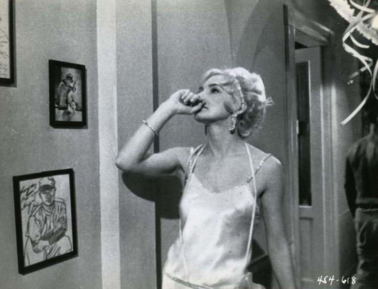 Publicity still of Barbara Loden for the American film Splendor in the Grass (1961).